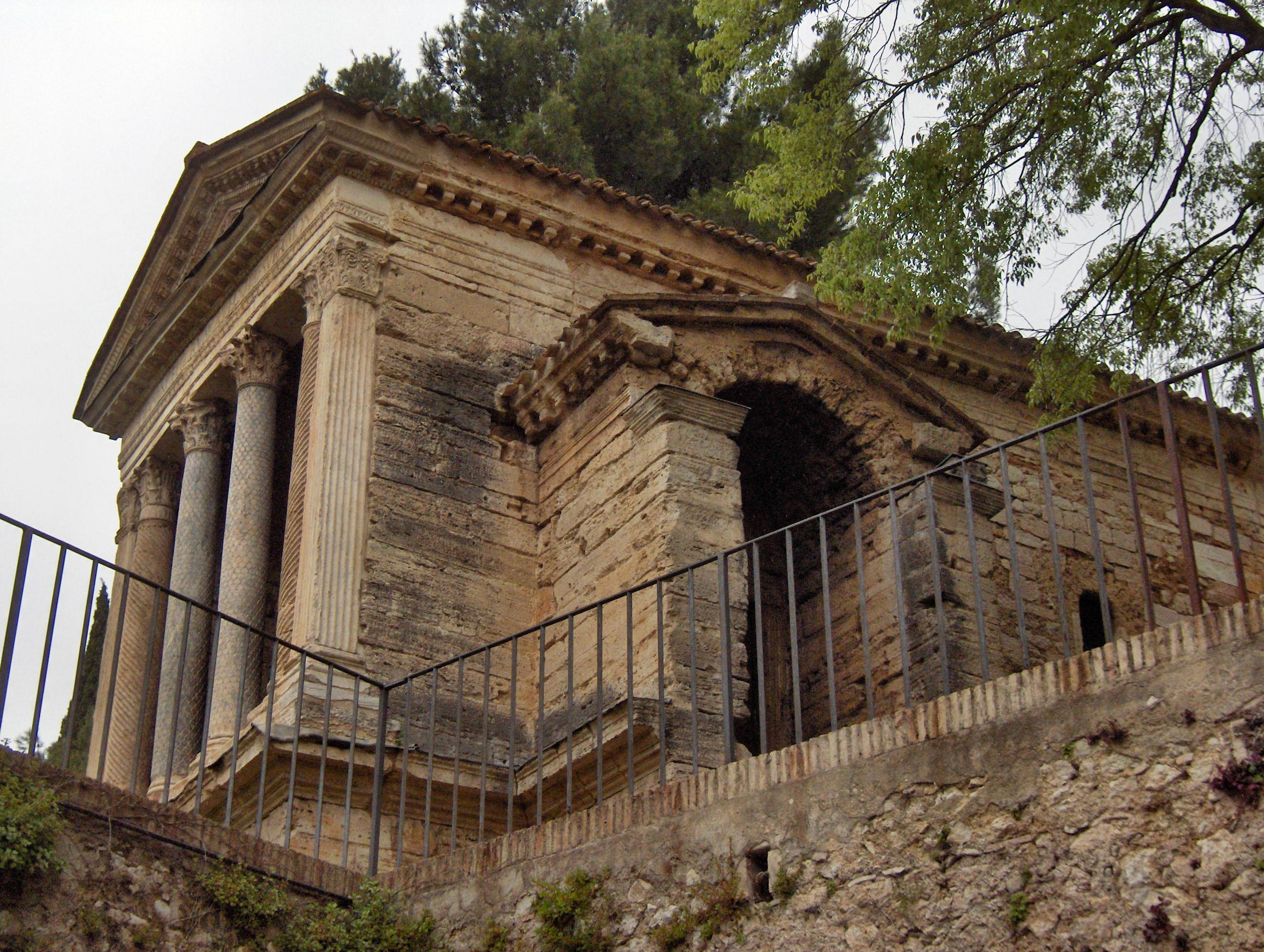 The former Roman temple dedicated to the river god Clitumnus and transformed into an early-Christian church (probably in the fourth century); located in Campello sul Clitunno, south of Trevi, Italy.